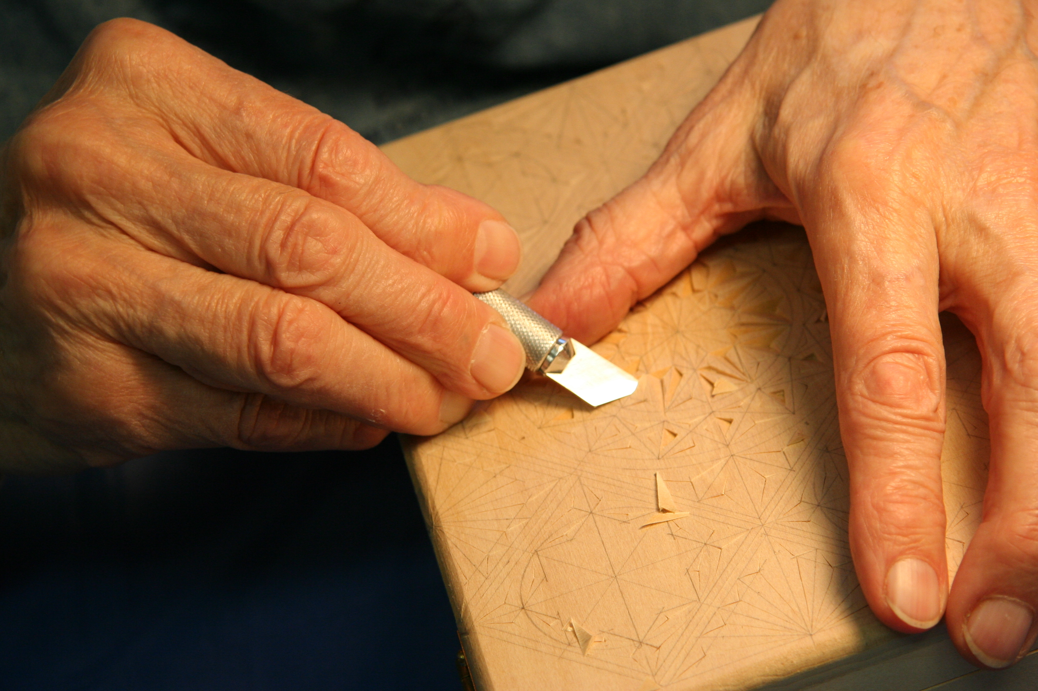 A man demonstrates chip carving on a basswood box with a knife